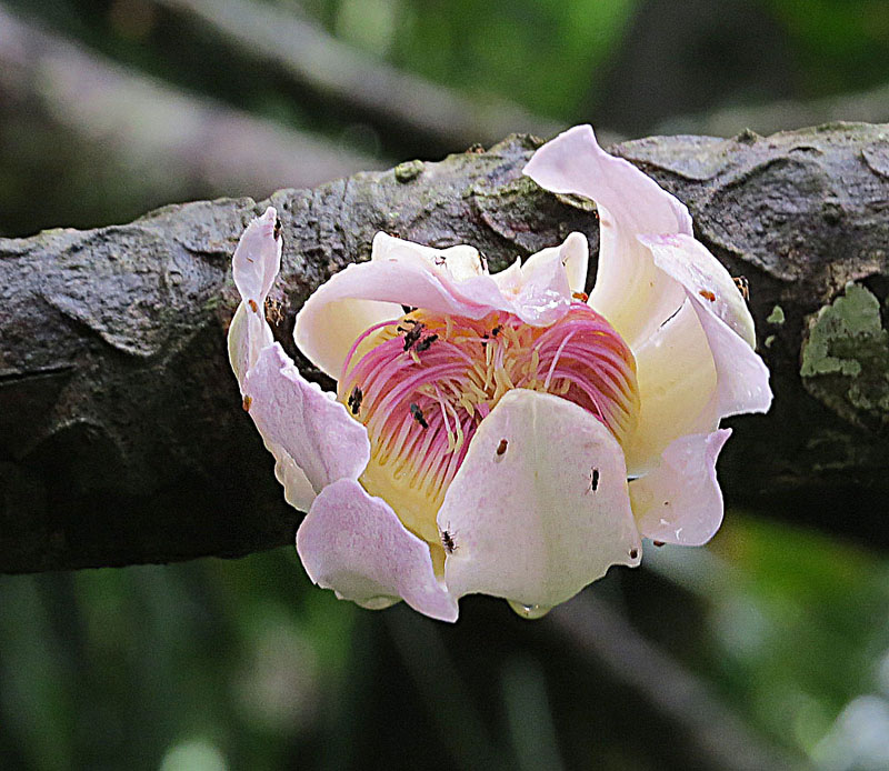 Flower of the Sachamango Tree, encountered mainly from Costa Rica to Colombia. This, and blossoms of related species are known as Heavenly Lotuses. Barro Colorado Island, Panama.